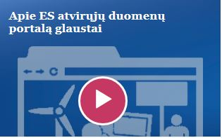 Screenshot from EUODP